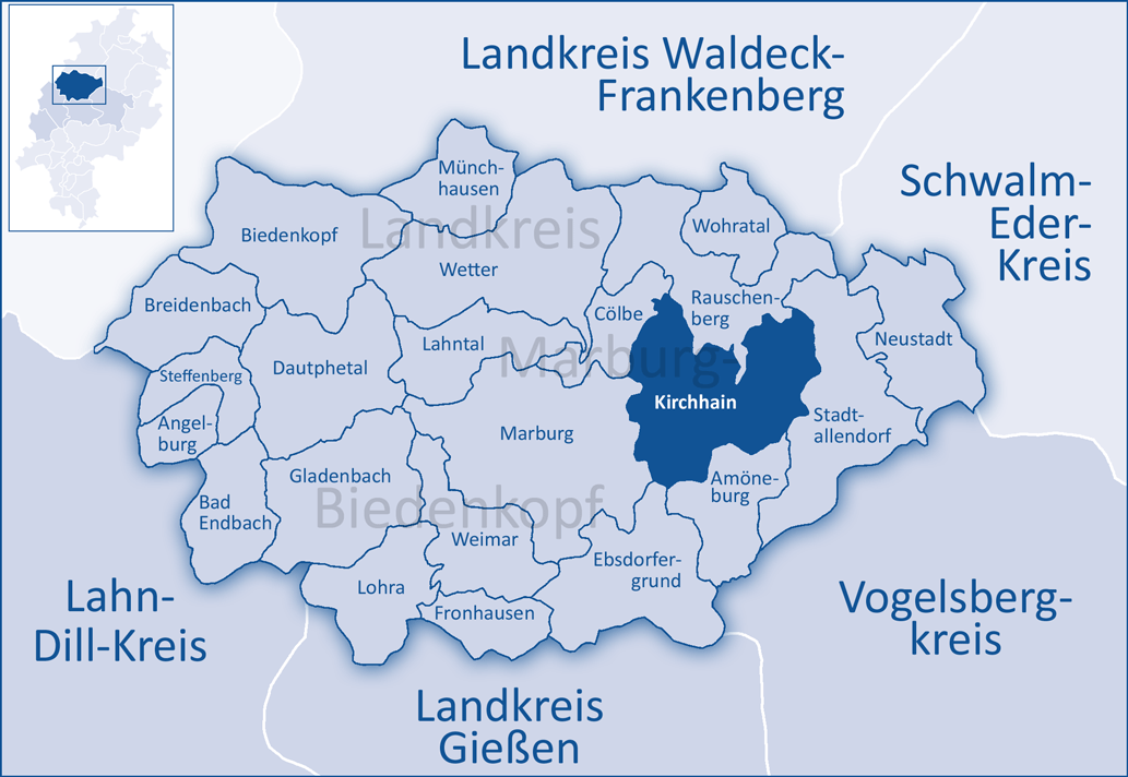 The map shows the municipal territory of Kirchhain in the district of Marburg-Biedenkopf.